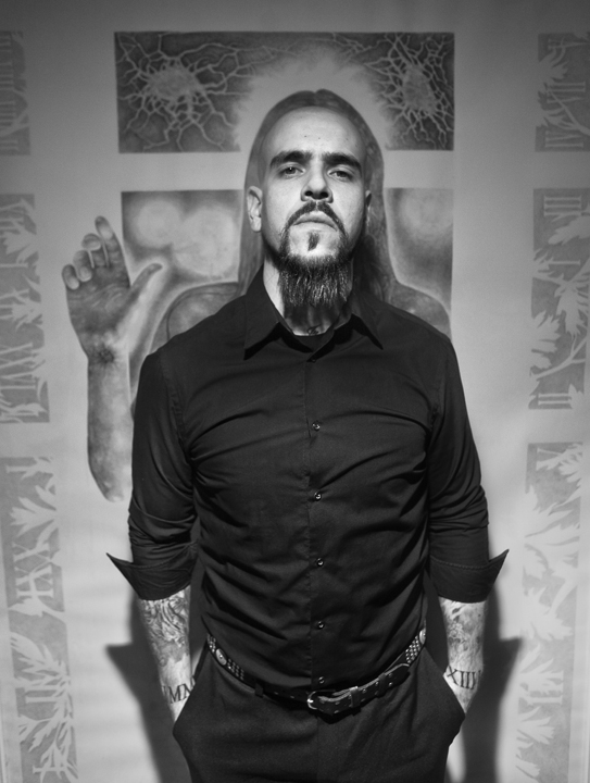 Vincent Castiglia - Photo: Nathaniel Shannon